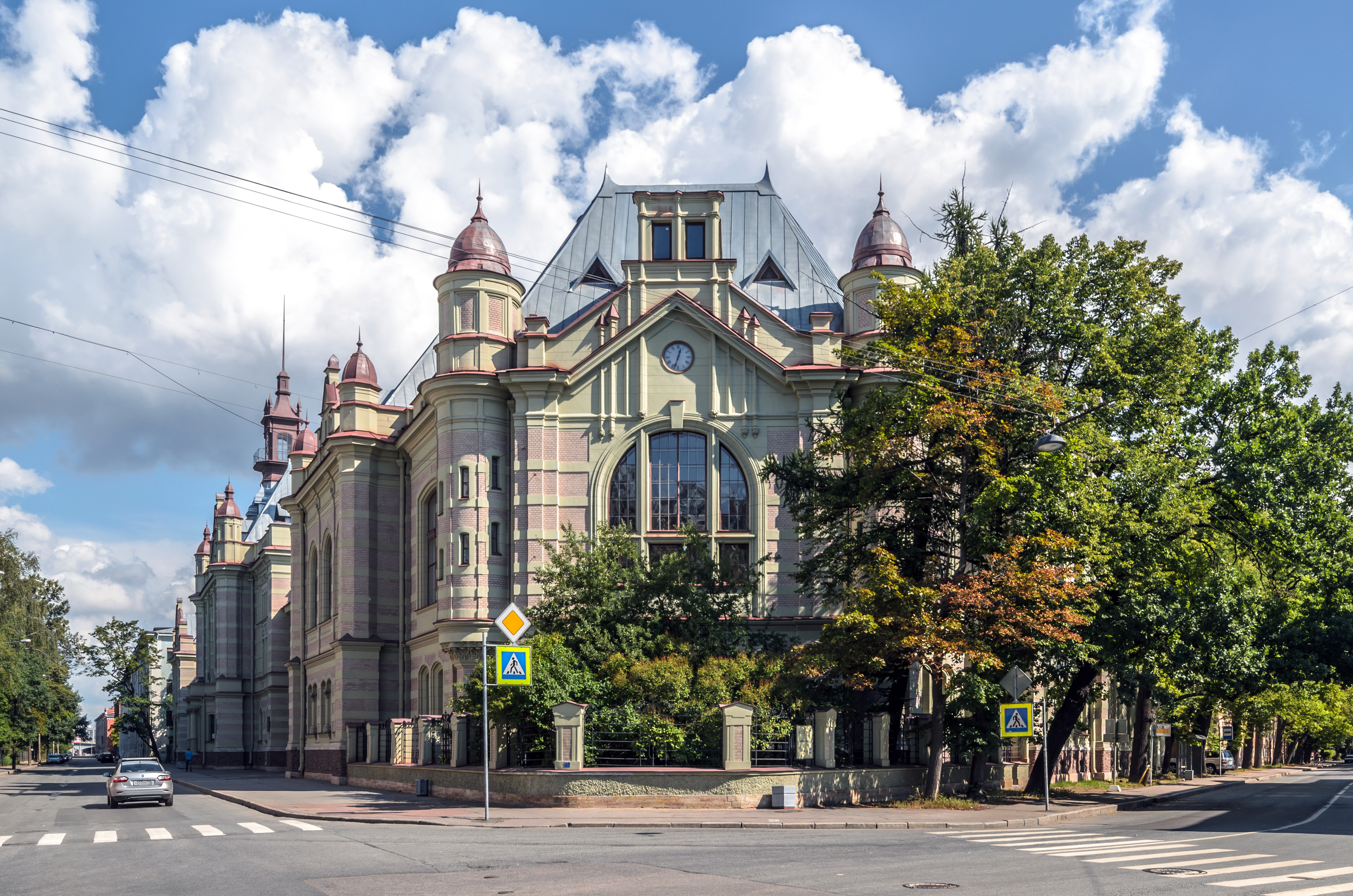 Electrotechnical University in Saint Petersburg, 1st Building